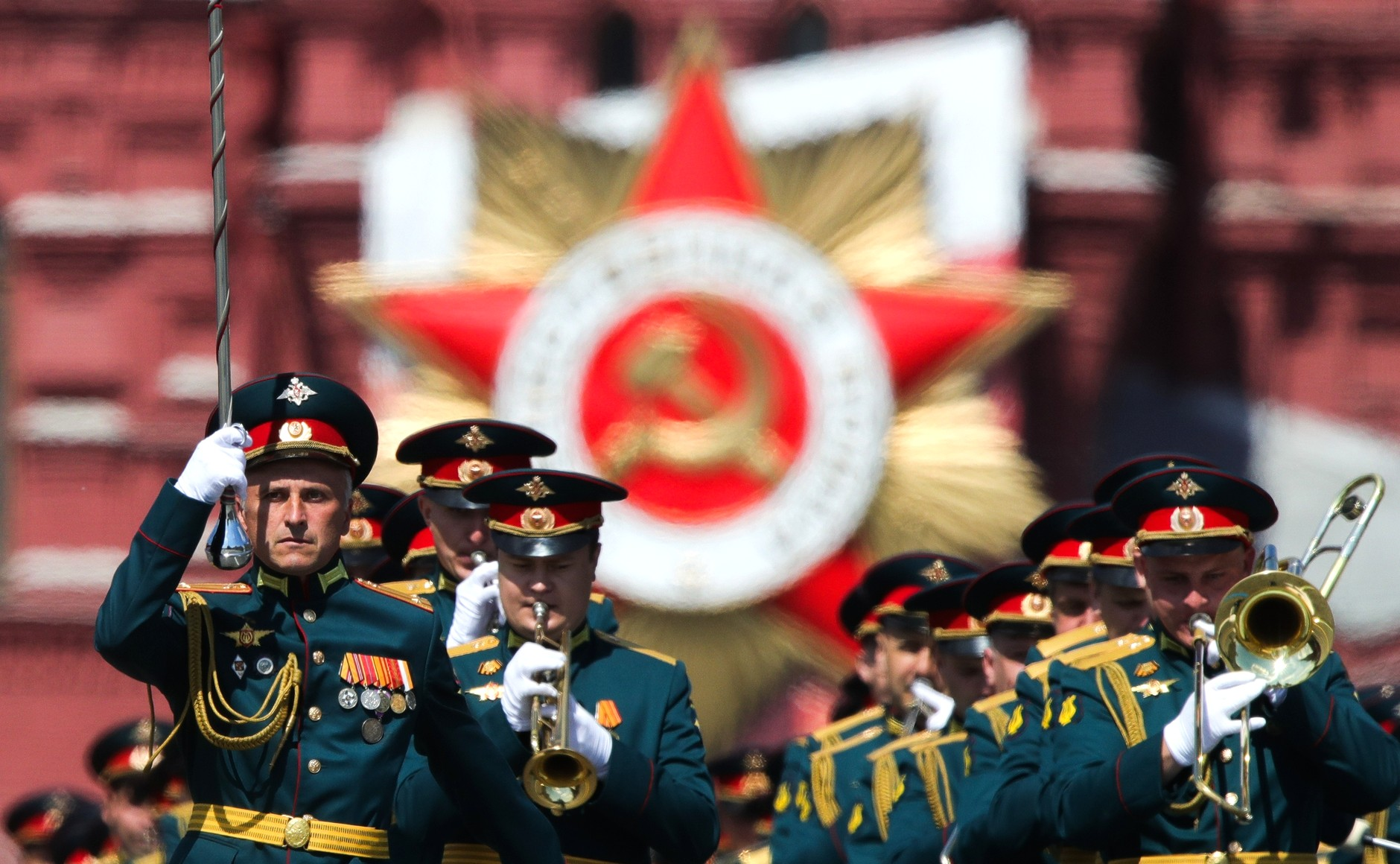 2020 Moscow Victory Day Parade Аҧсшәа: Военный парад на Красной площади в Москве 24 июня 2020 года